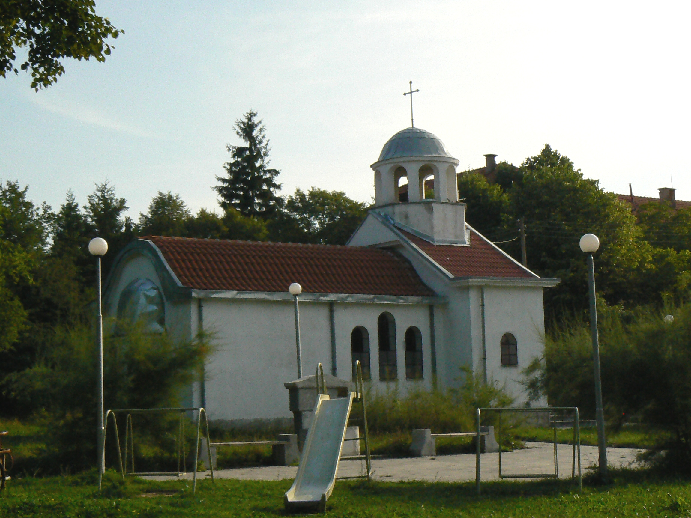 The church of village Milanovo, Sofia District, Bulgaria